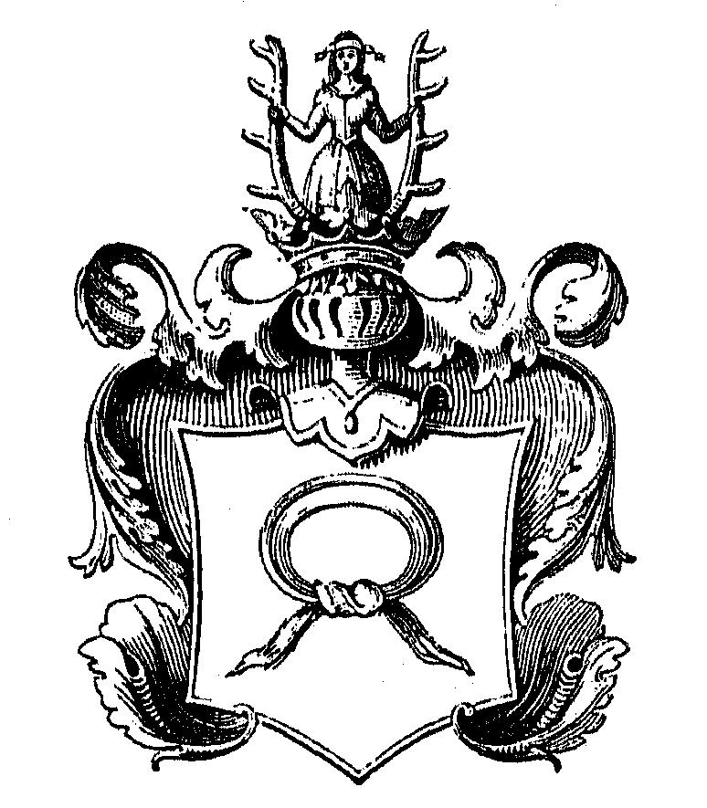 Coat of arms Nałęcz from Herbarz polski by Kacper Niesiecki